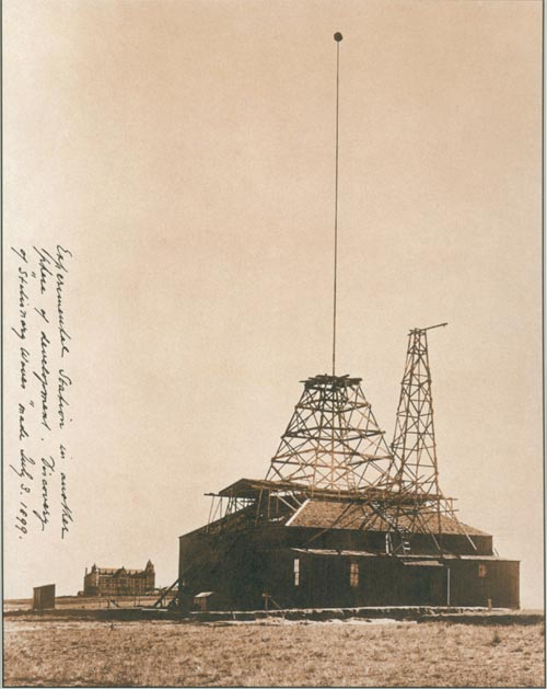 Nikola Teslas high voltage laboratory in Colorado Springs, Colo, at which he performed experiments in wireless power transmission from 1899-1900. The copper ball at the top of the telescoping tower is the terminal of his huge magnifying transmitter. Essentially an enormous Tesla coil, it could produce radio frequency potentials of the order of 20 million volts at a frequency of 150 kHz, producing huge arcs hundreds of feet long.